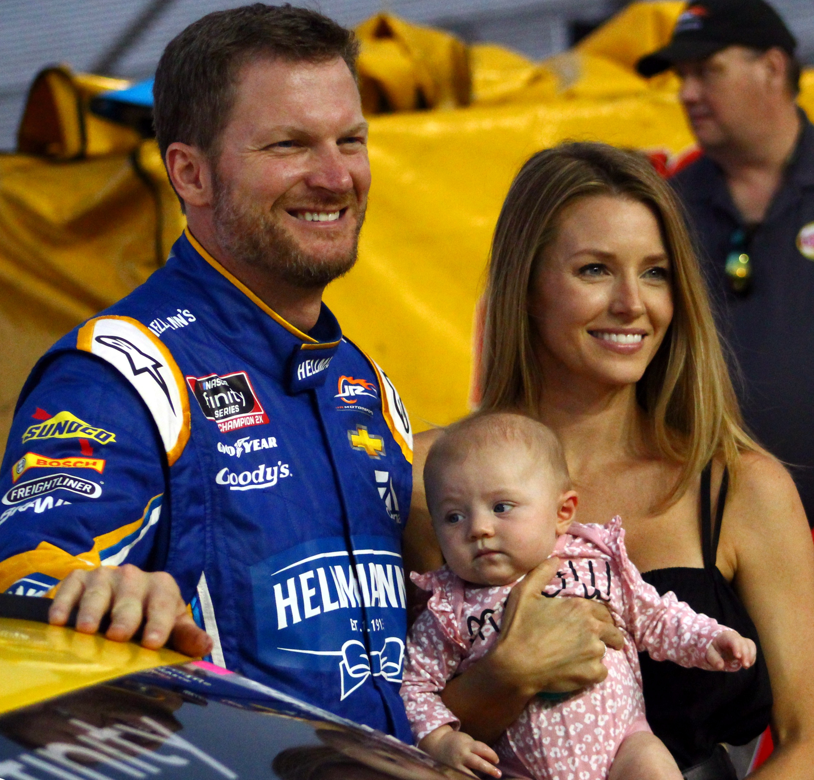 NASCAR driver Dale Earnhardt, Jr. with his family at Richmond's Fall race.